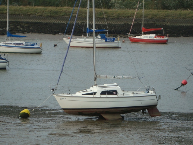 Leisure 20 dry